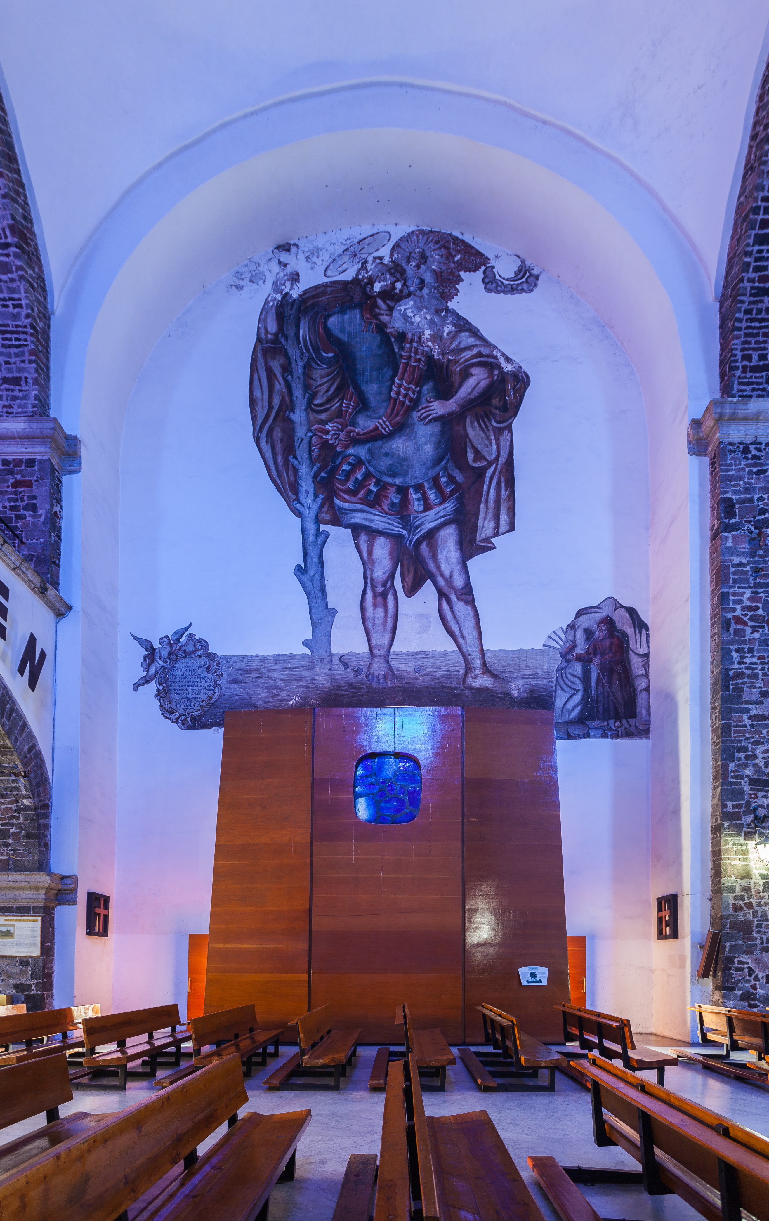 Church of Santiago Tlatelolco, Mexico City, Mexico